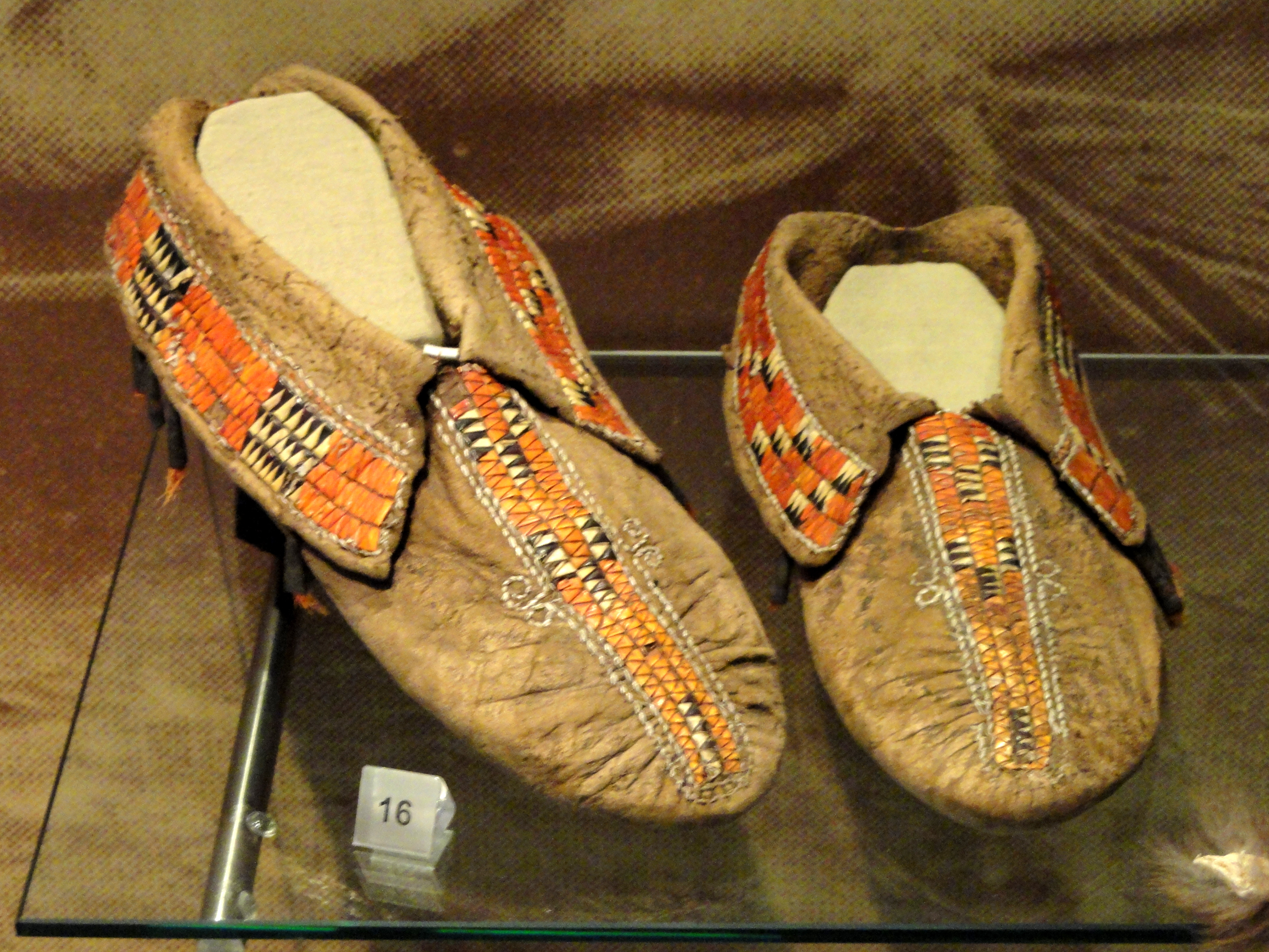 Exhibit from the North American collection of the Staatliches Museum für Völkerkunde München, Maximilianstraße 42, Munich, Germany. Moccasins with porcupine bristles, eastern woodlands, 18th or early 19th century